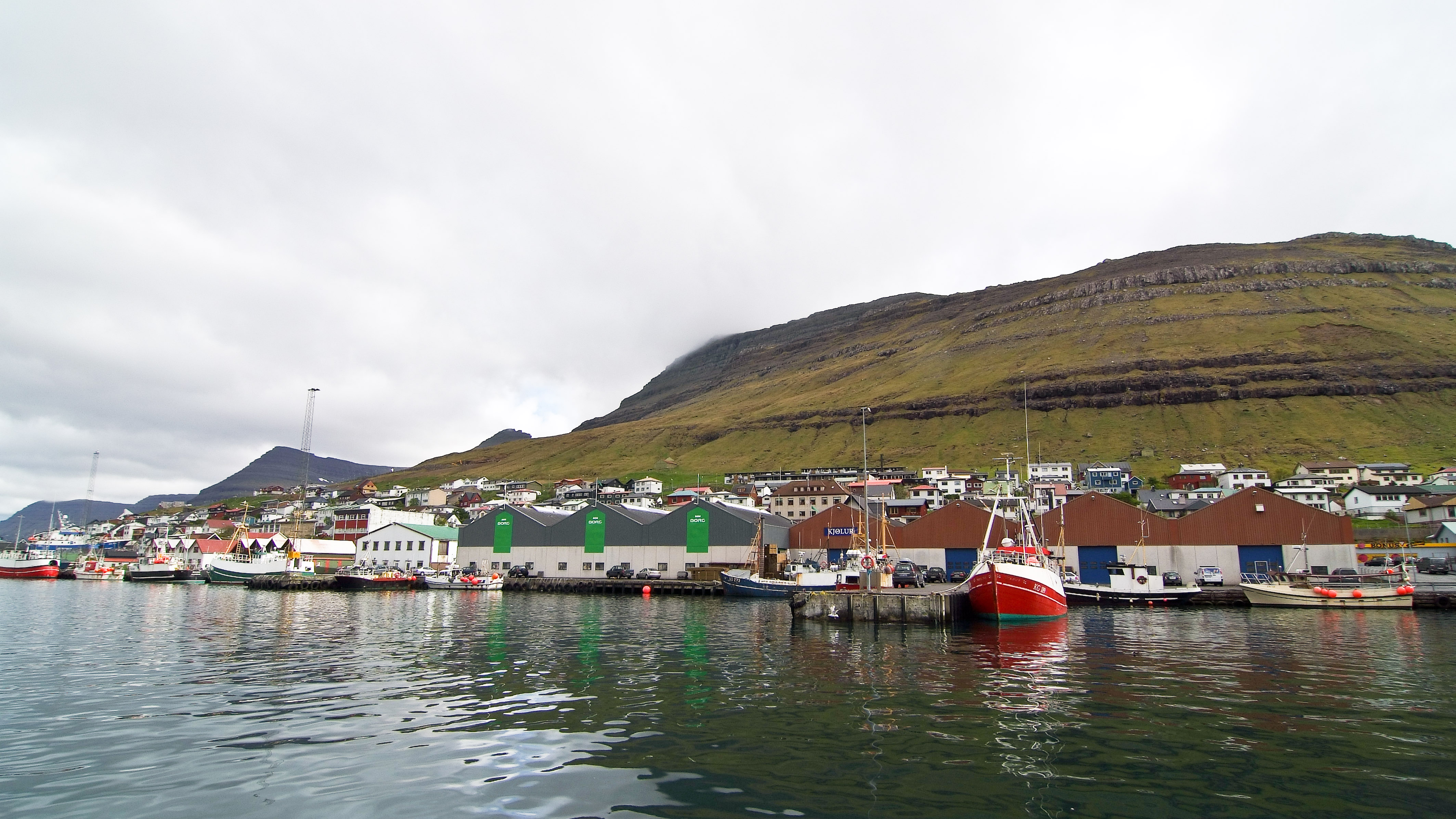 Habour of Klaksvík in the Faroe Islands.